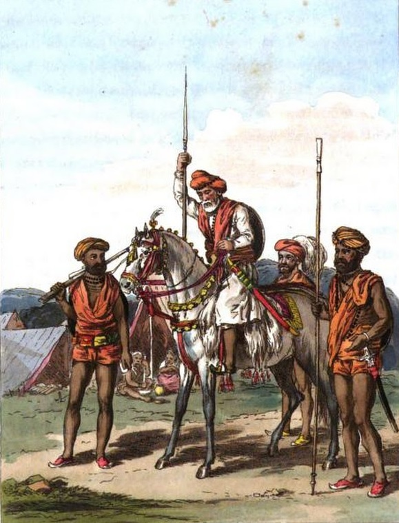 Hindu warrior ascetics.